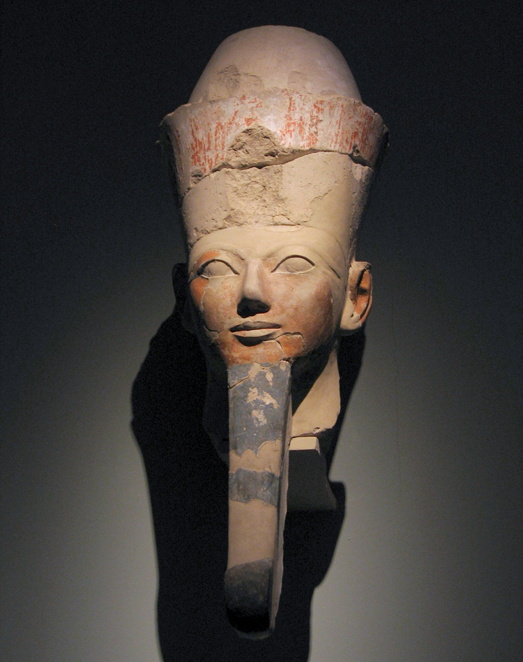 Osiride head of Hatshepsut, Eighteenth dynasty of Egypt, c. 1503-1482 B.C., found at Deir el-Bahri, Thebes. Painted limestone sculpture at the Metropolitan Museum of Art, New York City. This is the surviving fragment of a statue of Hatshepsut in the guise of the god Osiris that stood in her funerary temple, at an original height of 11 feet. This one wears the Double Crown. All of the Osiride statues in her temple were architectural accents, standing within niches rather than freestanding. The figures were also carved from the same material as the temple itself.